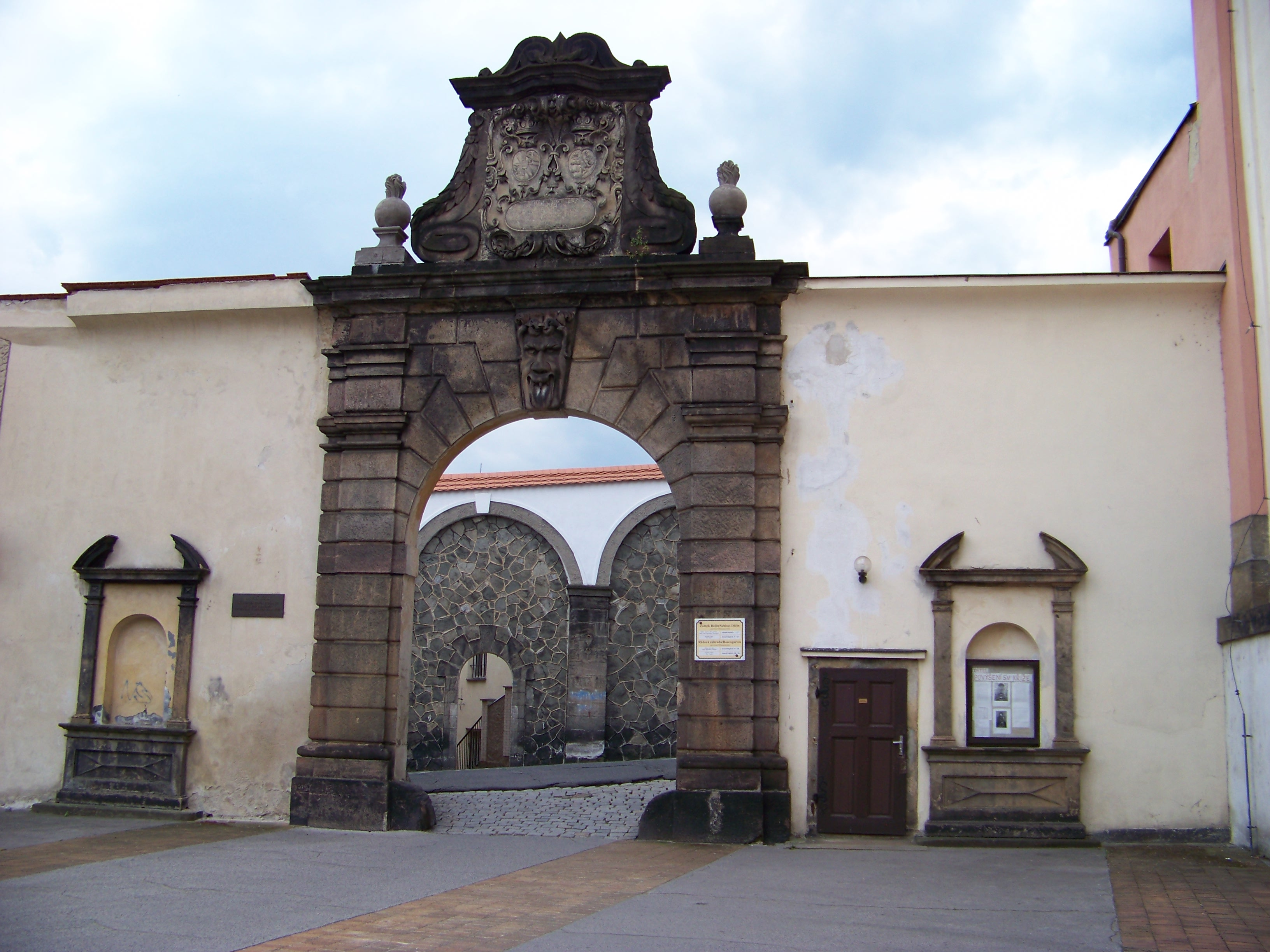 Děčín I-Děčín, Děčín District, Ústí nad Labem Region, the Czech Republic. Křížová street, a gate to the Dlouhá jízda street at Church of the Exaltation of the Holy Cross.